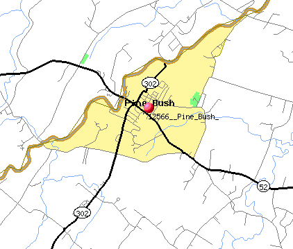 Screen shot of Pine Bush, New York from the US Census TIGER Map Service.